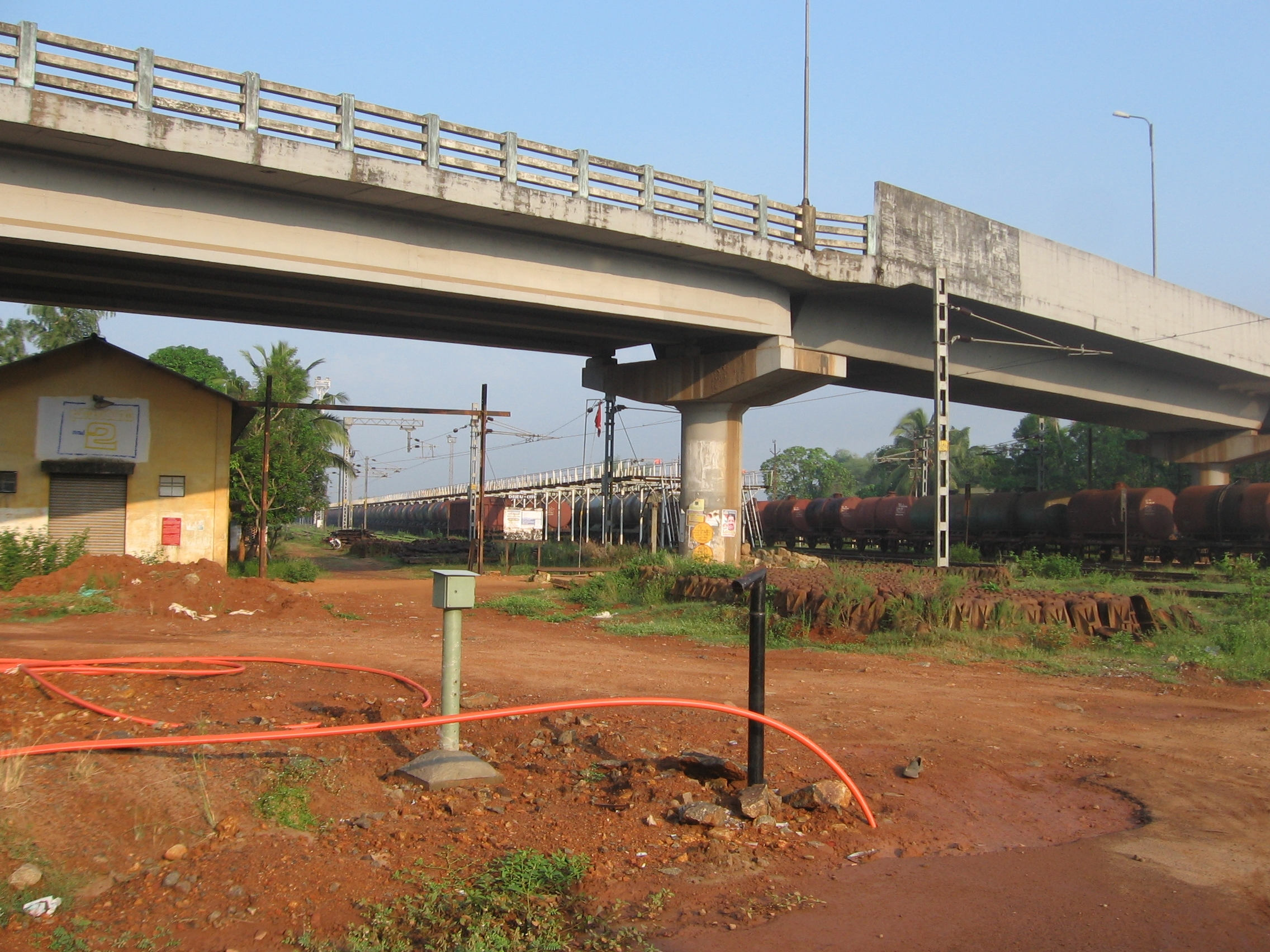 Irumpanam Over Bridge, Thripunithura